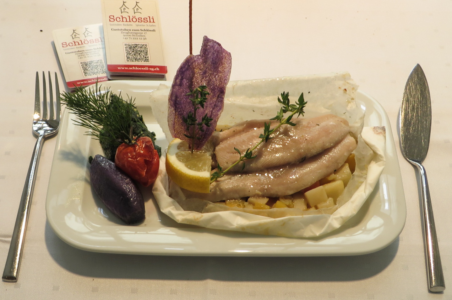 Blue potatos with a fish prepared according to a tradition dating back to Saint Gallus, Switzerland